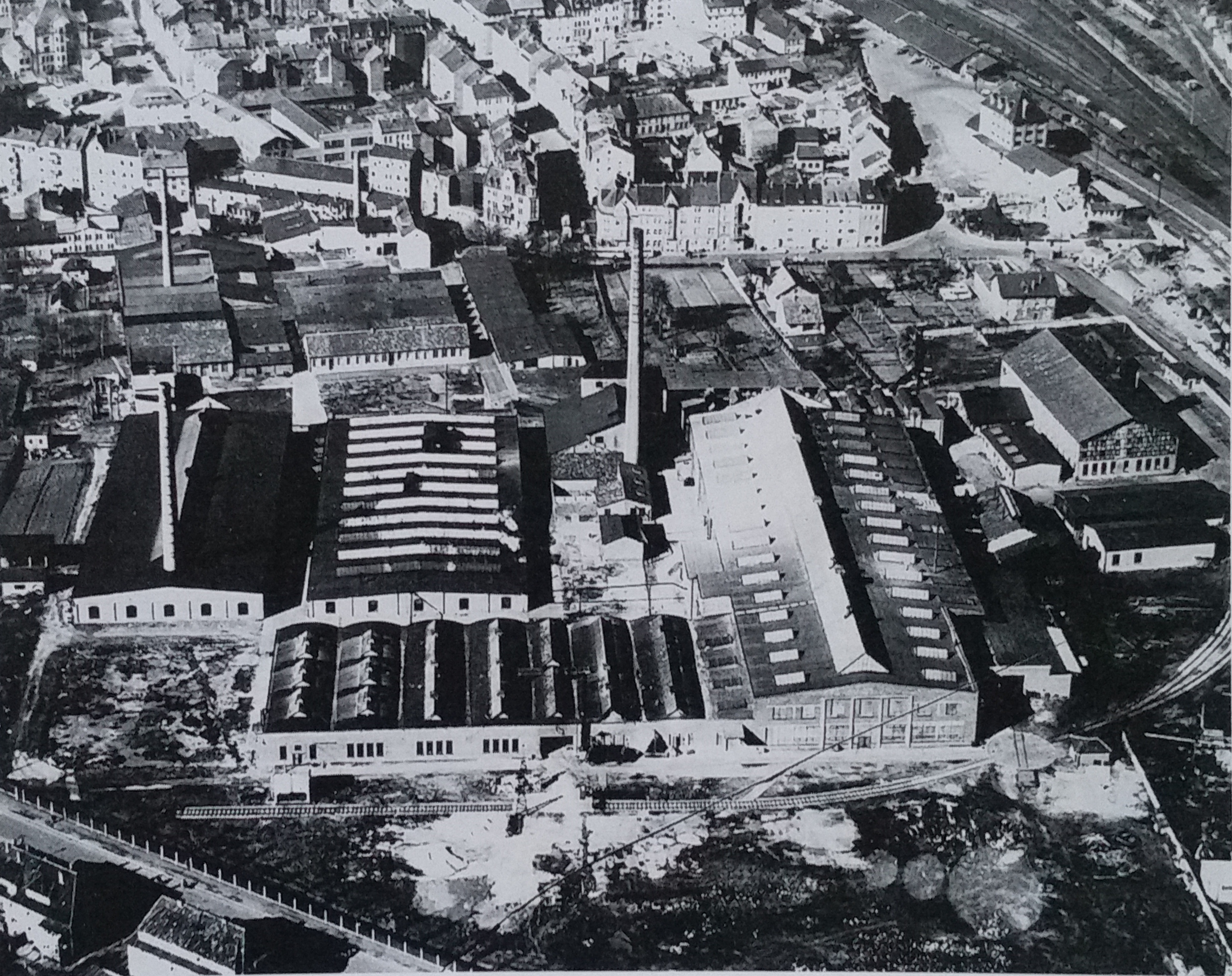 Luftbild der Emaillierwerke AG Fulda, circa 1950. Im Hintergrund die Petersberger Straße und der Hauptbahnhof